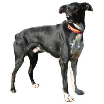 Author: Heather Adeney Source: Heather Adeney